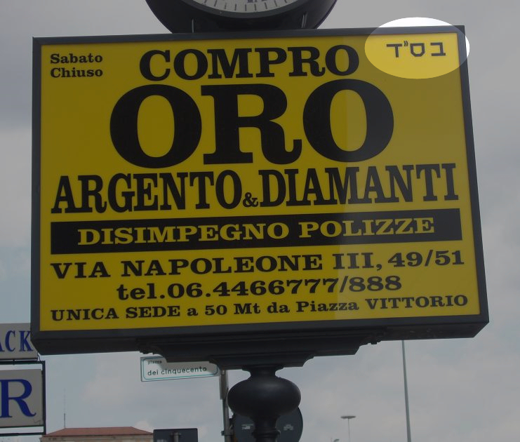 street commercial sign (advertising the trading of gold, silver, and diamonds, in Rome, via Napoleone III, near piazza Vittorio) marking the Hebrew acronym letters Basad, בס"ד